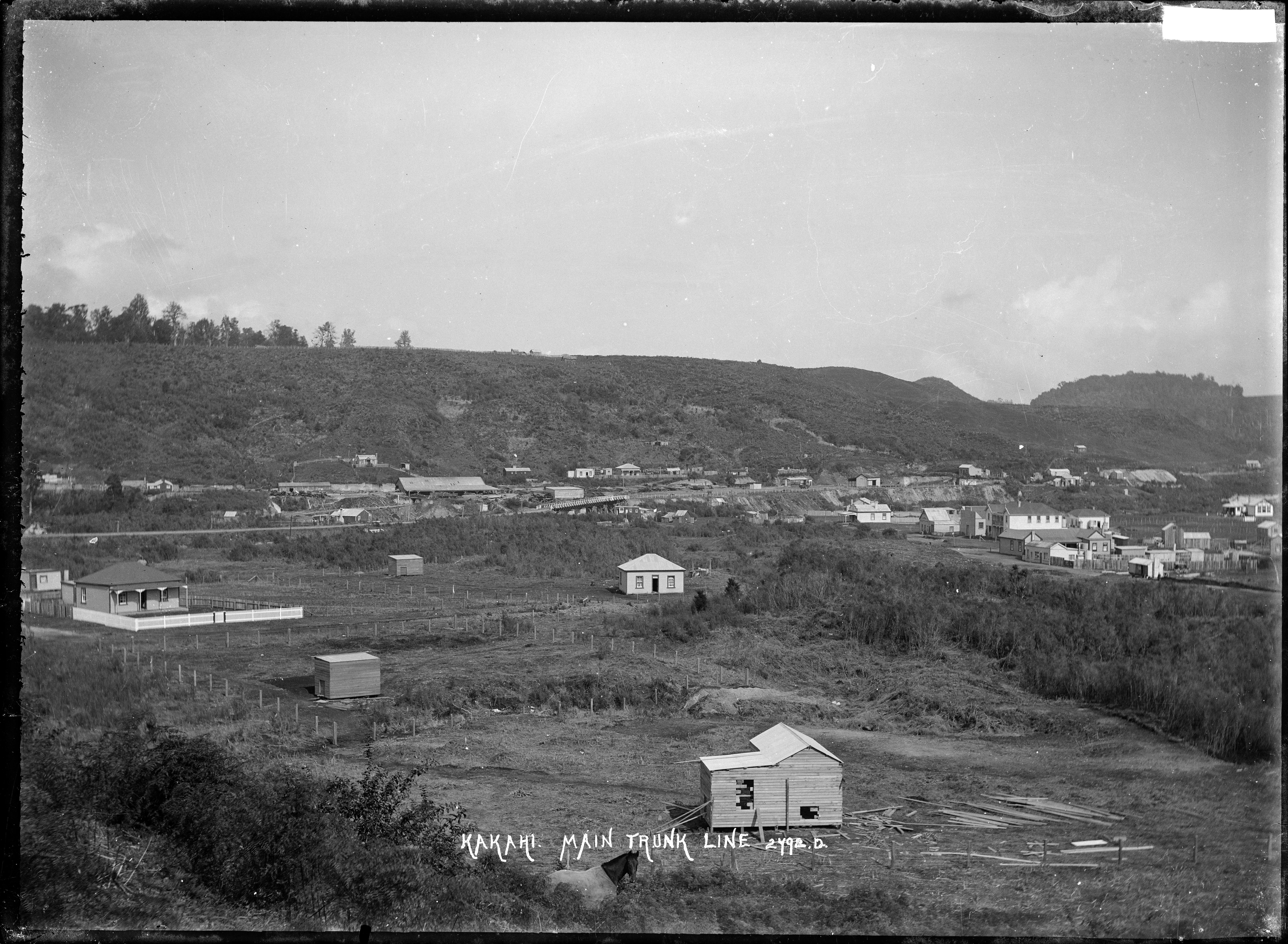 Kakahi, with the shopping centre and town hall centre right, and the Kakahi Viaduct visible in the centre. Photograph taken by William A Price in early 1900s. Inscriptions: Inscribed - Photographer's title on negative -bottom centre: Kakahi. Main Trunk Line. 2792D. Quantity: 1 b&w original negative(s). Physical Description: Dry plate glass negative 4.5 x 6.5 inches Kakahi. Price, William Archer, 1866-1948 :Collection of post card negatives. Ref: 1/2-000206-G. Alexander Turnbull Library, Wellington, New Zealand.